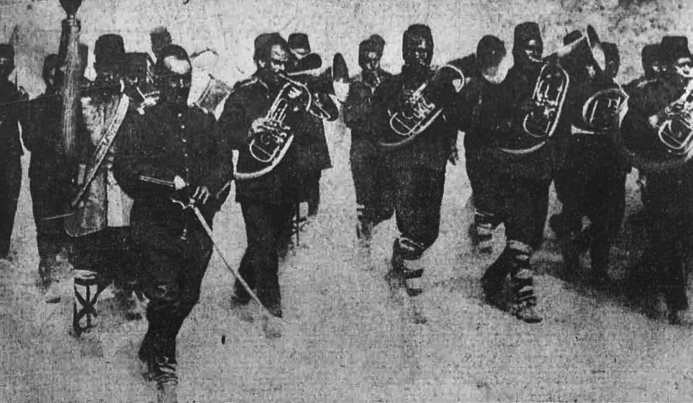 Newspaper photograph of an Ottoman military band. Original caption: Photo by Paul Thompson. WHEN THE SULTAN GOES TO WAR Turkey's new army has an exceptional number of military bands to the corps. Here one is shown leading its regiment through the streets of Constantinople.